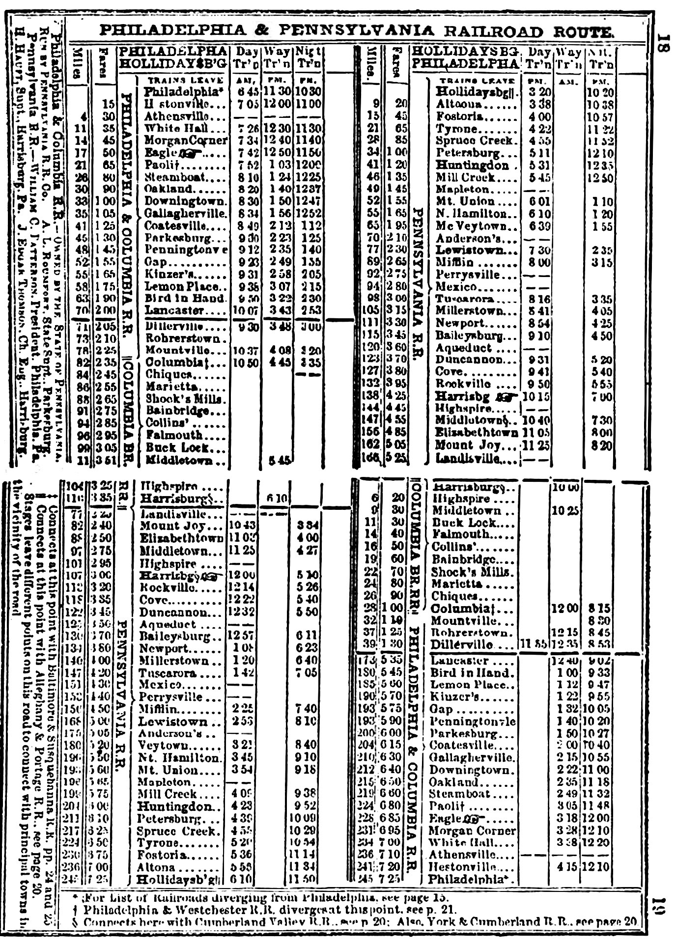 Pennsylvania Railroad, and Philadelphia & Columbia Railroad schedules, March, 1851